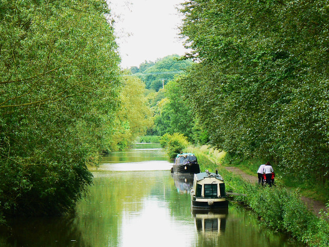 Another view of the Kennet and Avon canal, Hungerford This photograph was taken using a fair amount of zoom. The public footpath on the right was once the canal towpath.